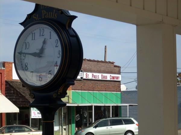 A view of Broad Street in St. Pauls